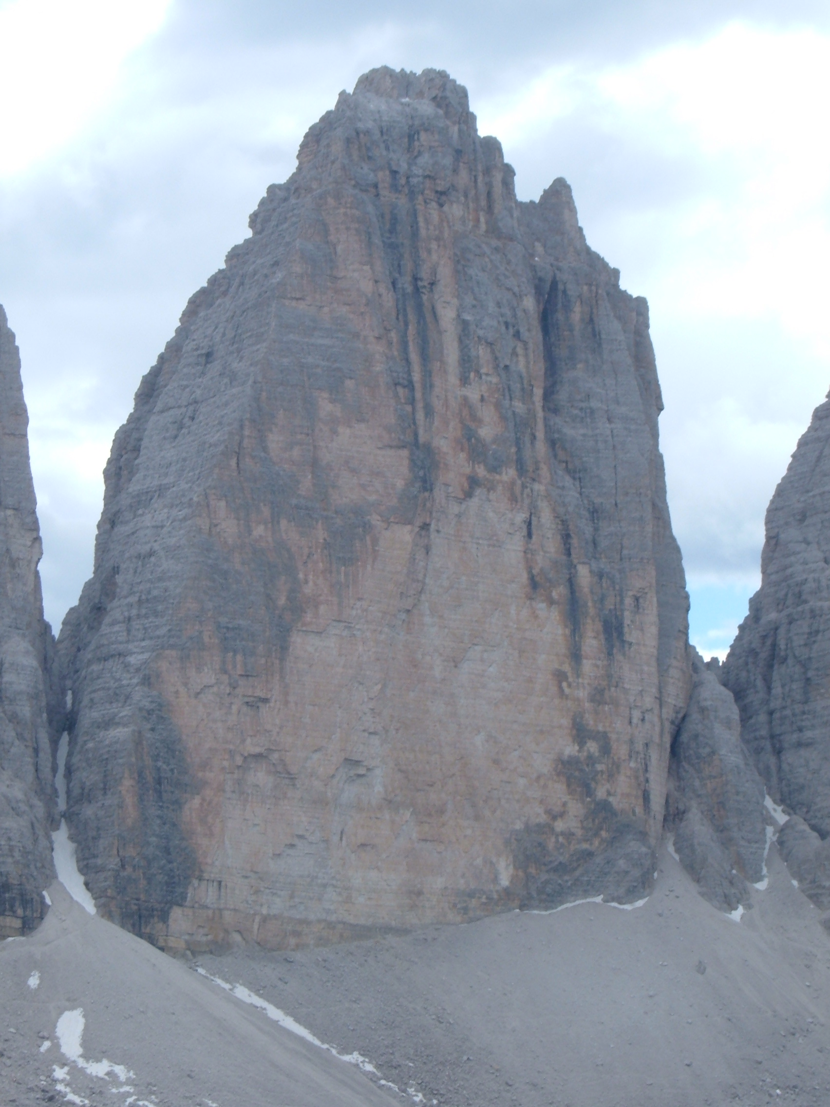 Famous mountain in the Dolomites. Part of the Drei Zinnen Own work 25/06/06